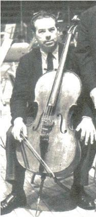 Harry Gorodetzer on the stage during a practice session